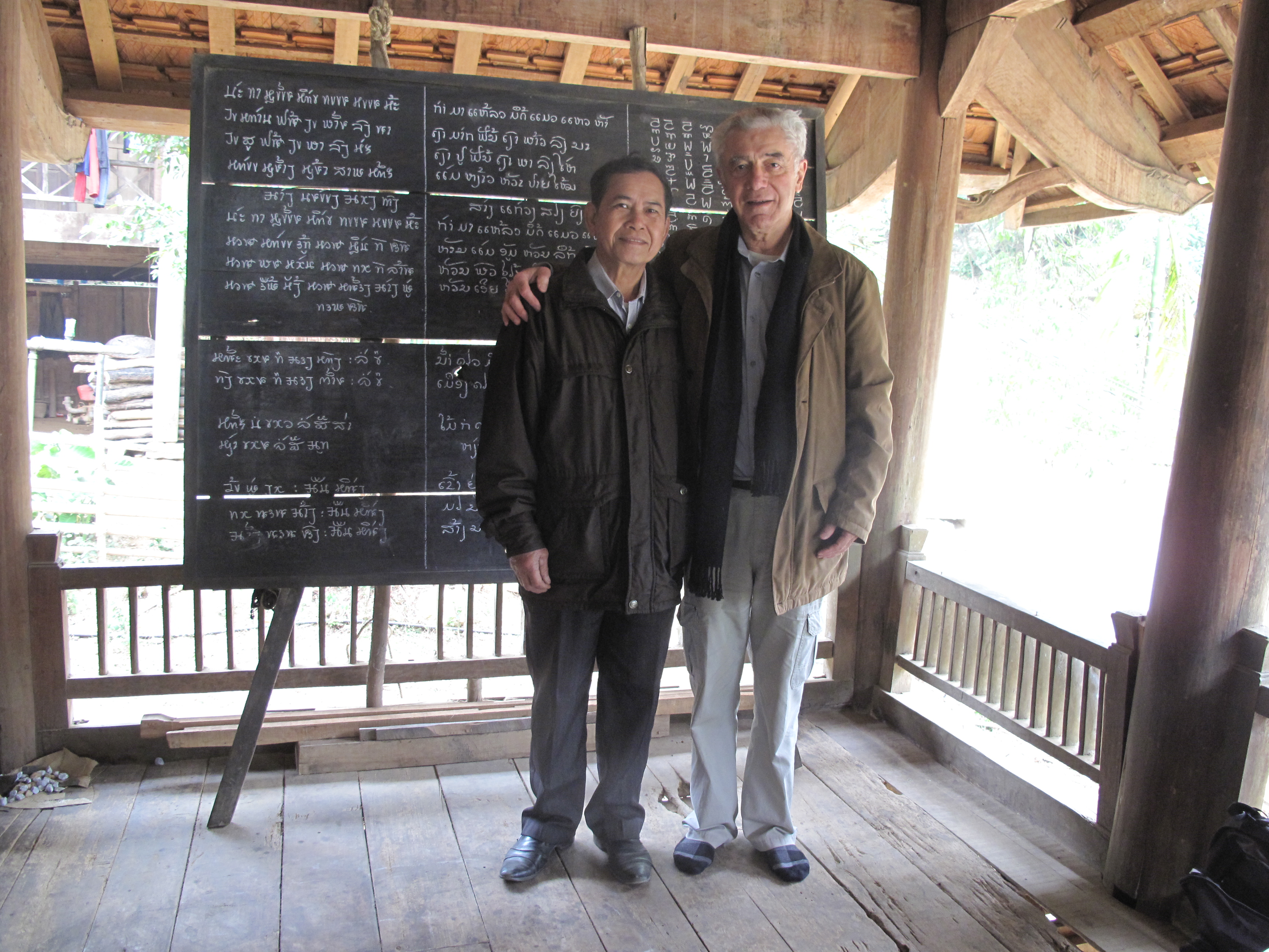 This is a picture of Michel Ferlus with Vi Khăm Mun, a scholar of Tương Dương, Nghệ An, Vietnam, at Mr. Mun's home. It was taken during linguistic field work in January 2014. The black board shows different varieties of Tai script, including a modified version of Lai Paw (a.k.a. Lai Pao), a script unique to this area of Vietnam.